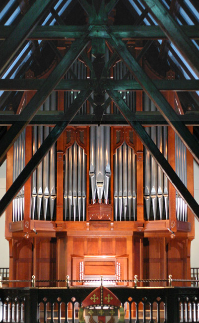 C.B. Fisk Opus 127 a mechanical action "tracker" organ.